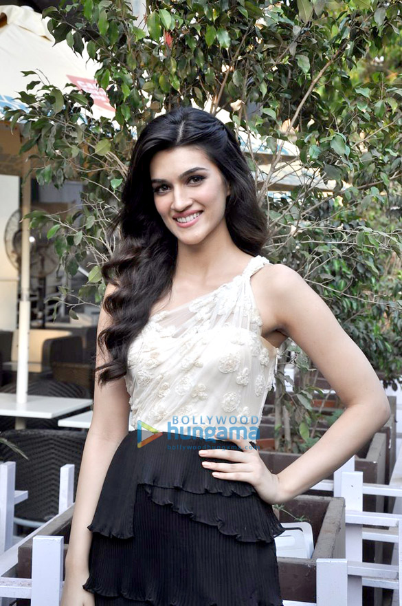 Kriti Sanon at the trailer launch of 'Heropanti'